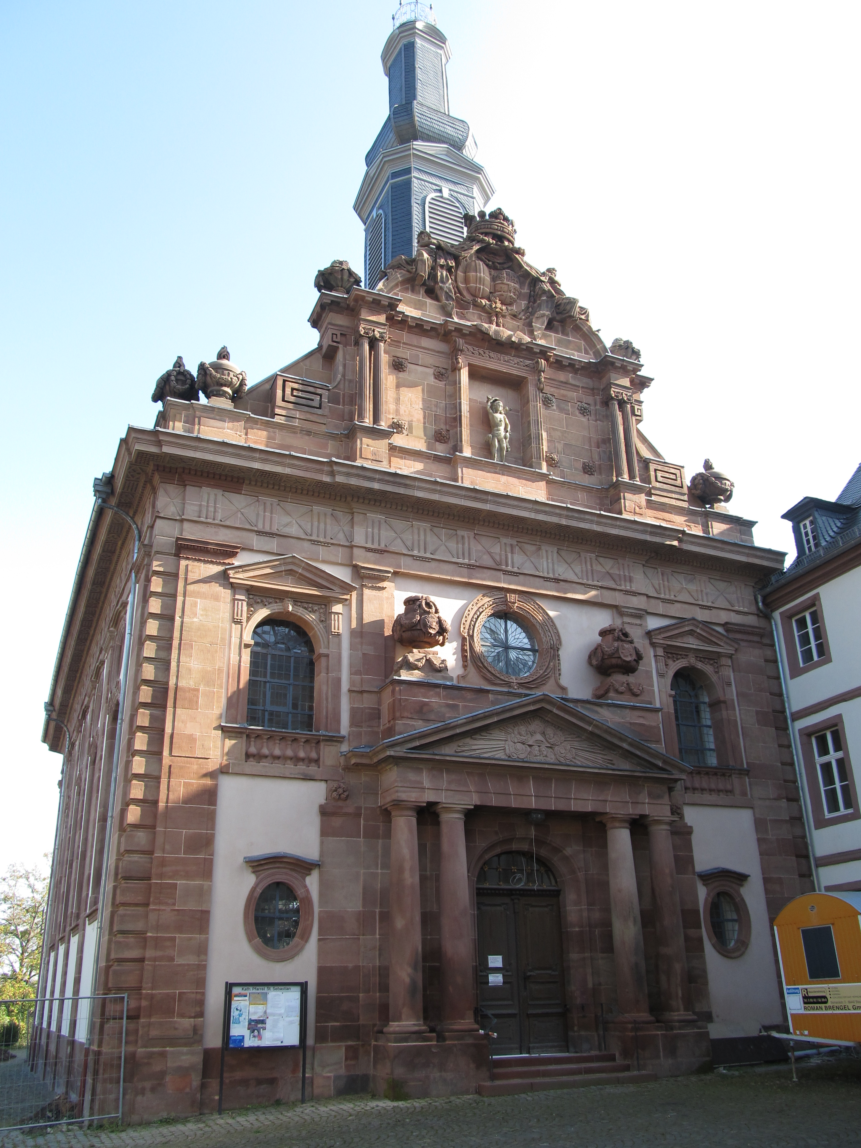 Castle Church Blieskastel